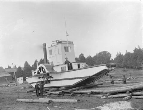 "Alligator tug 'Bonnechere' on blocks, side view"